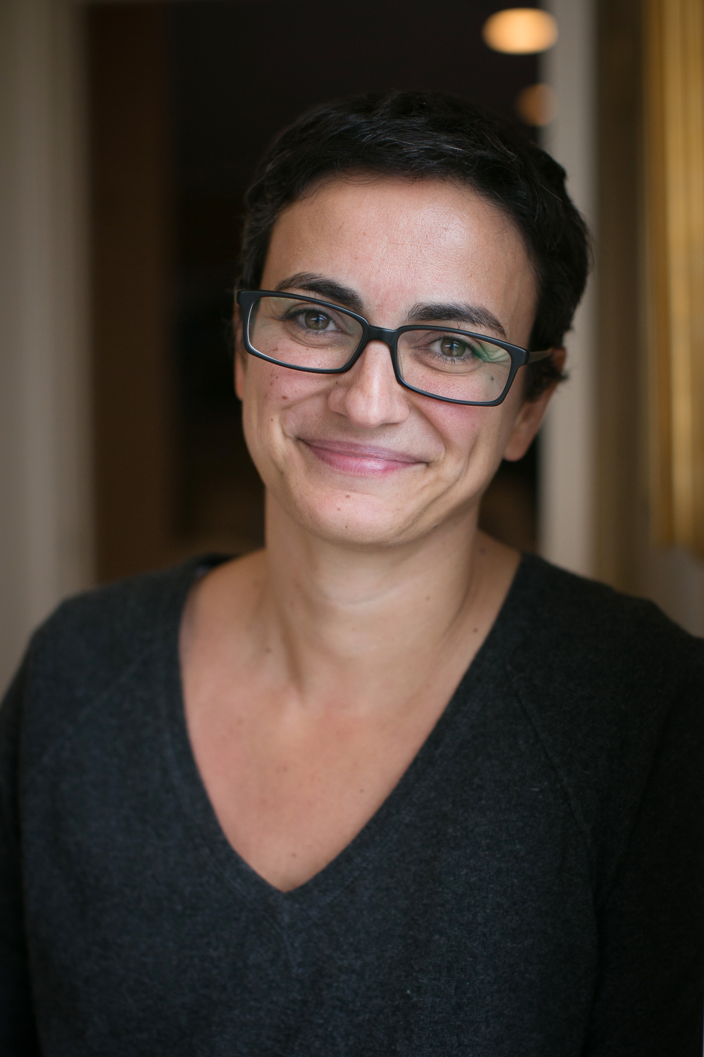 Flaminia